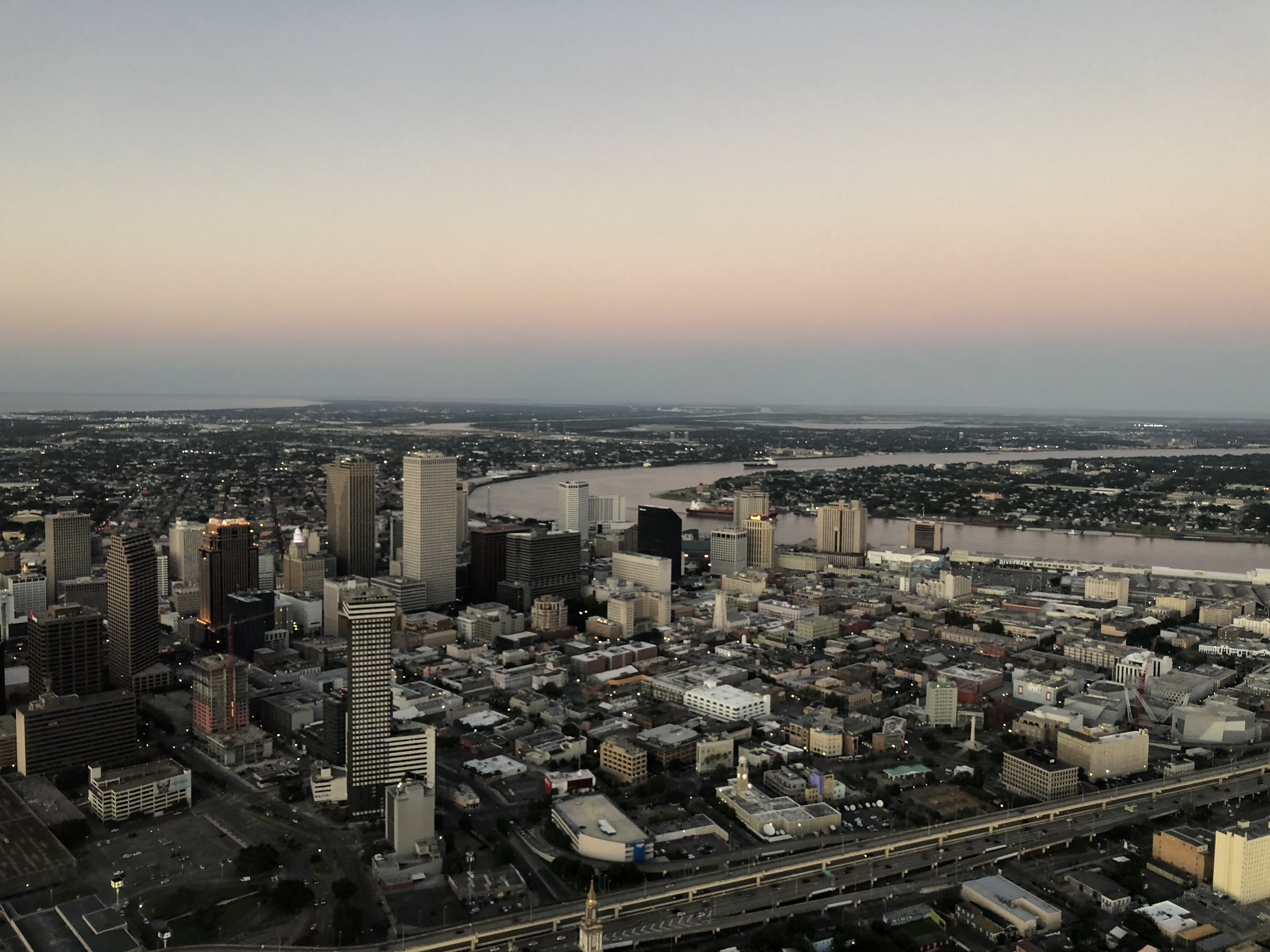 New Orleans from the Air- High rises of the Central Business District